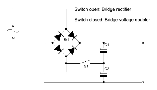 Rectire that can be switched between bridge and voltage doubling